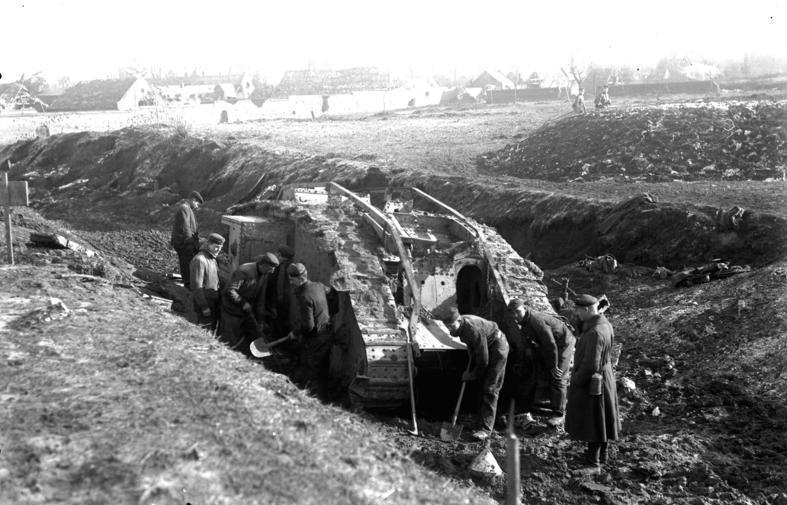 Cambrai, Bourlon, German soldiers make preparations to recover a knocked out British MARK IV tank